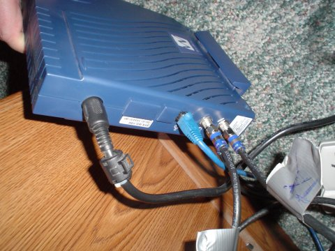 This is the back panel of a WildBlue Satellite modem. I took this picture in March of 2006. Jesster79 04:39, 3 March 2006 (UTC)